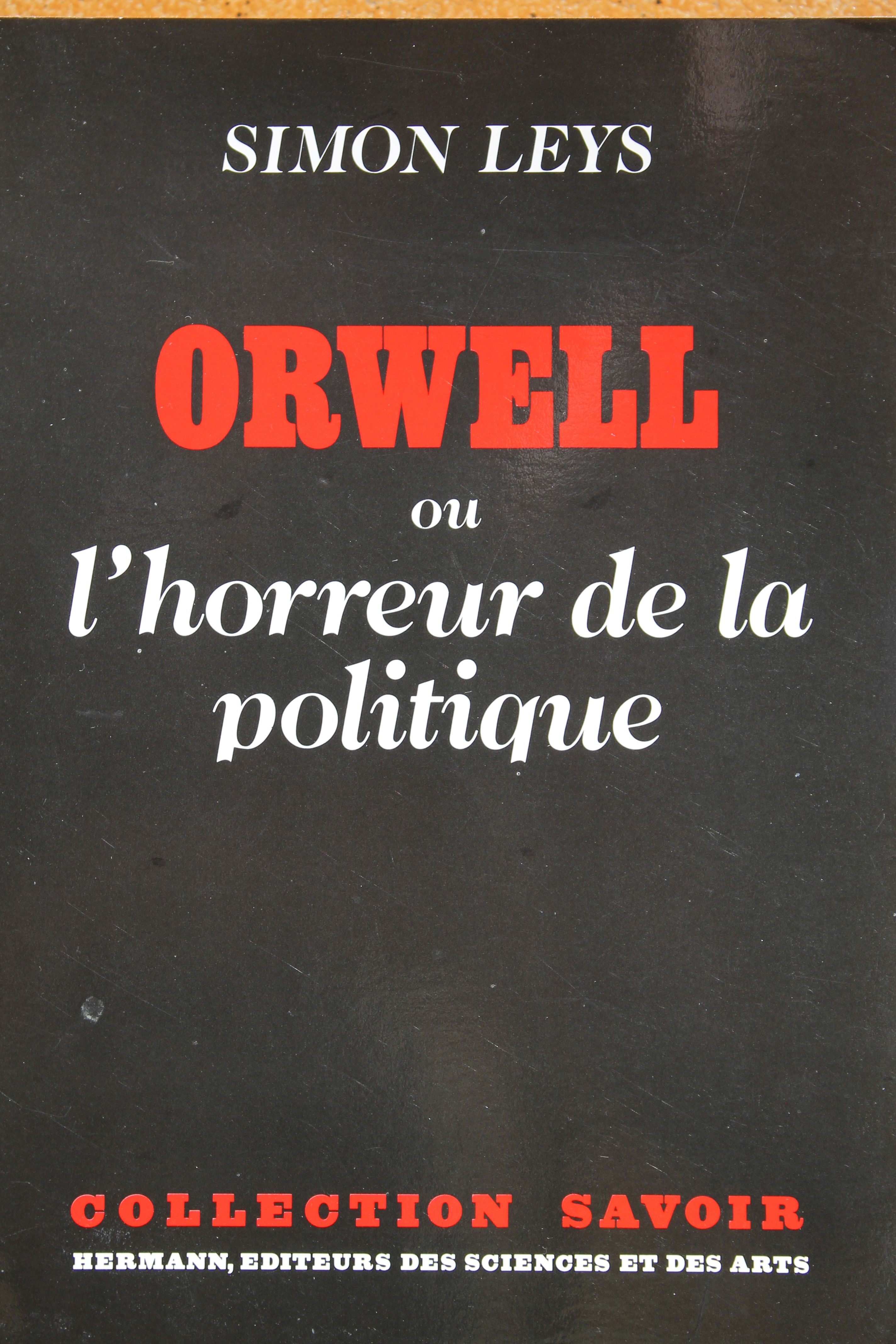 Simon Leys book about George Orwell